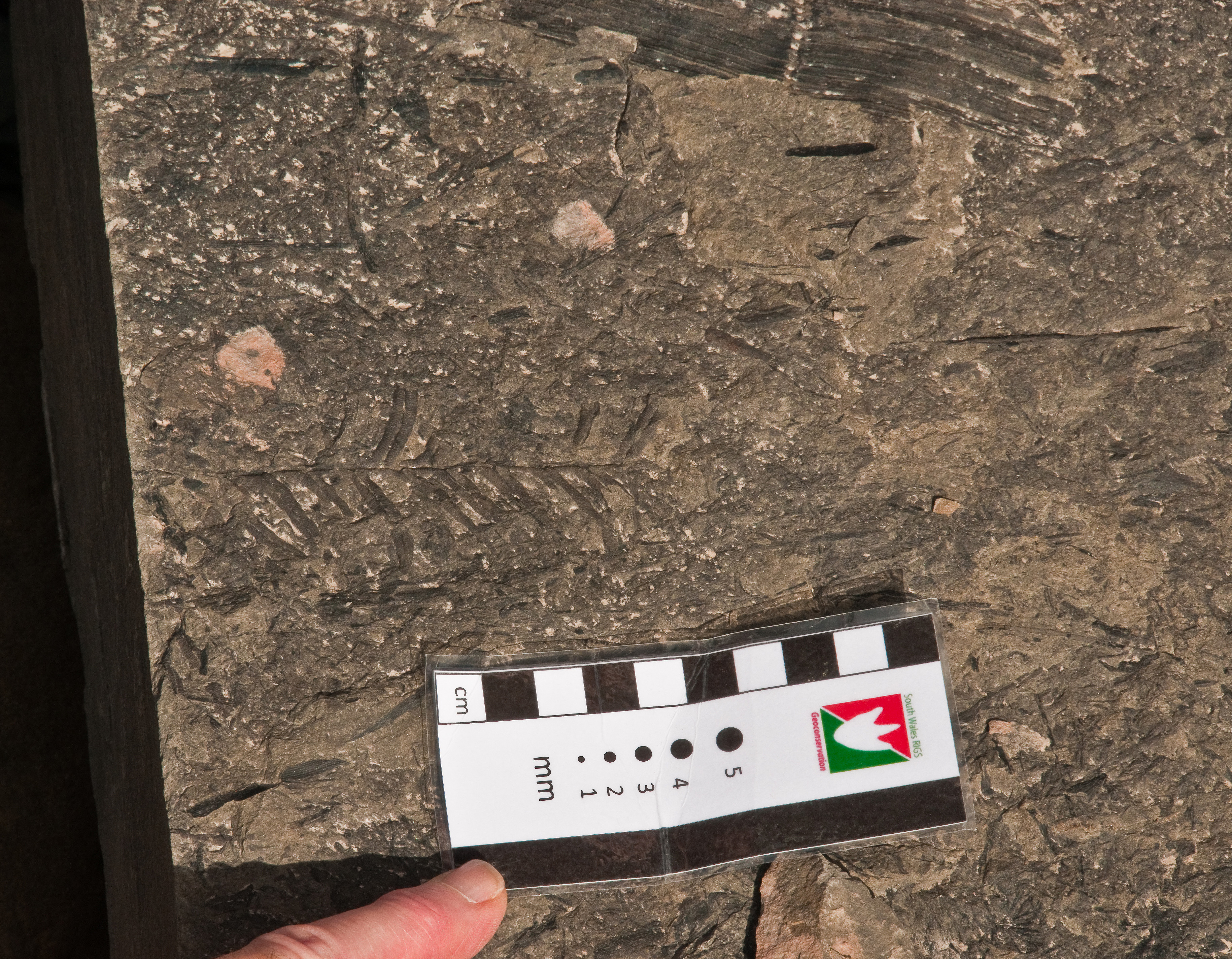 Slab with macerated fossil plants from the Pennsylvanian period. Identifiable is a fairly preserved frond of a seed fern (Alethopteris, left of above the scale) and a larger fragment of a horsetail stem (Calamites, top margin of the image). Joggins Fossil Cliffs World Heritage Site, Nova Scotia.